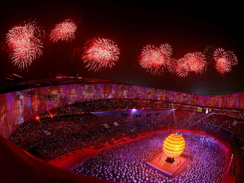 The nest of fireworks